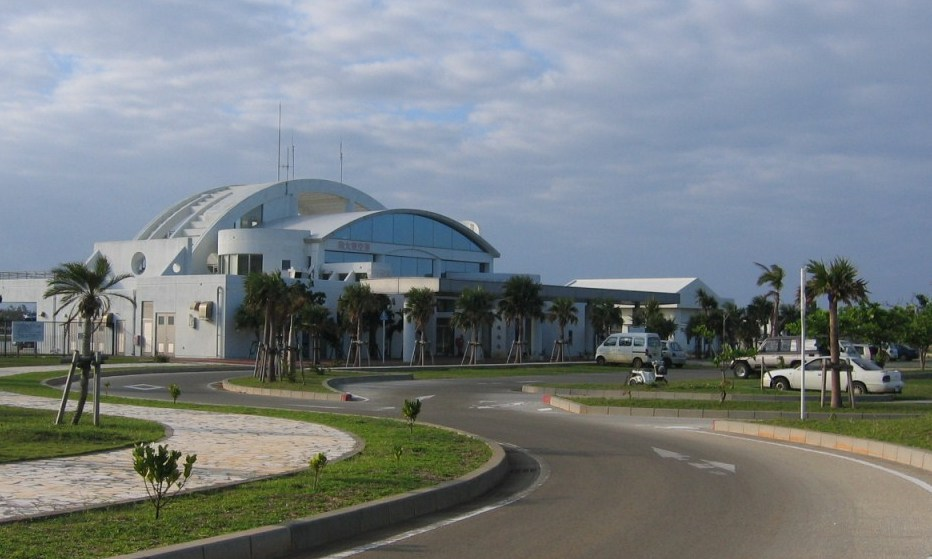 Minamidaito Airport